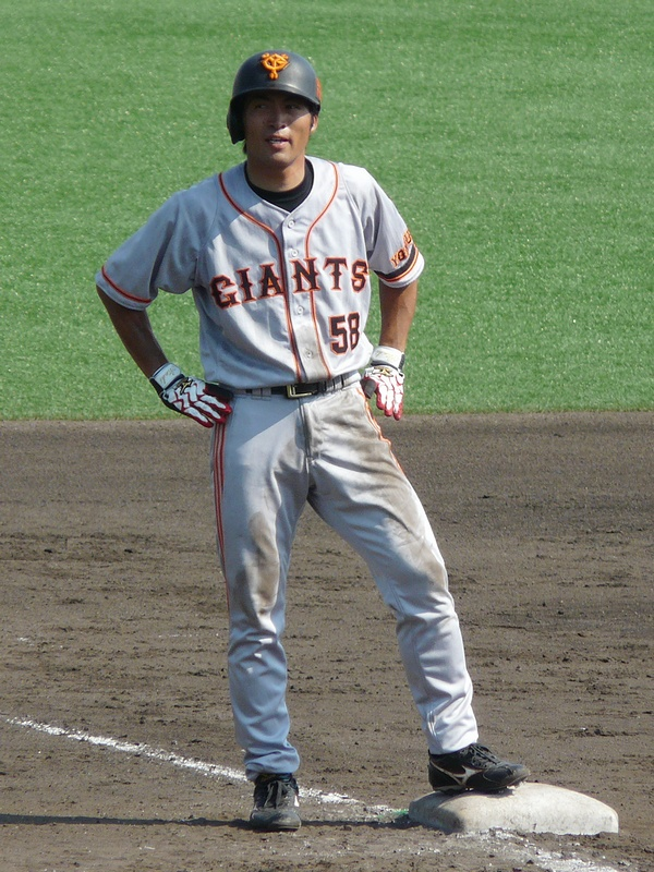 Atsushi Fukumoto, infielder of the Yomiuri Giants, at Kobe Sports Park Sub Baseball Ground.